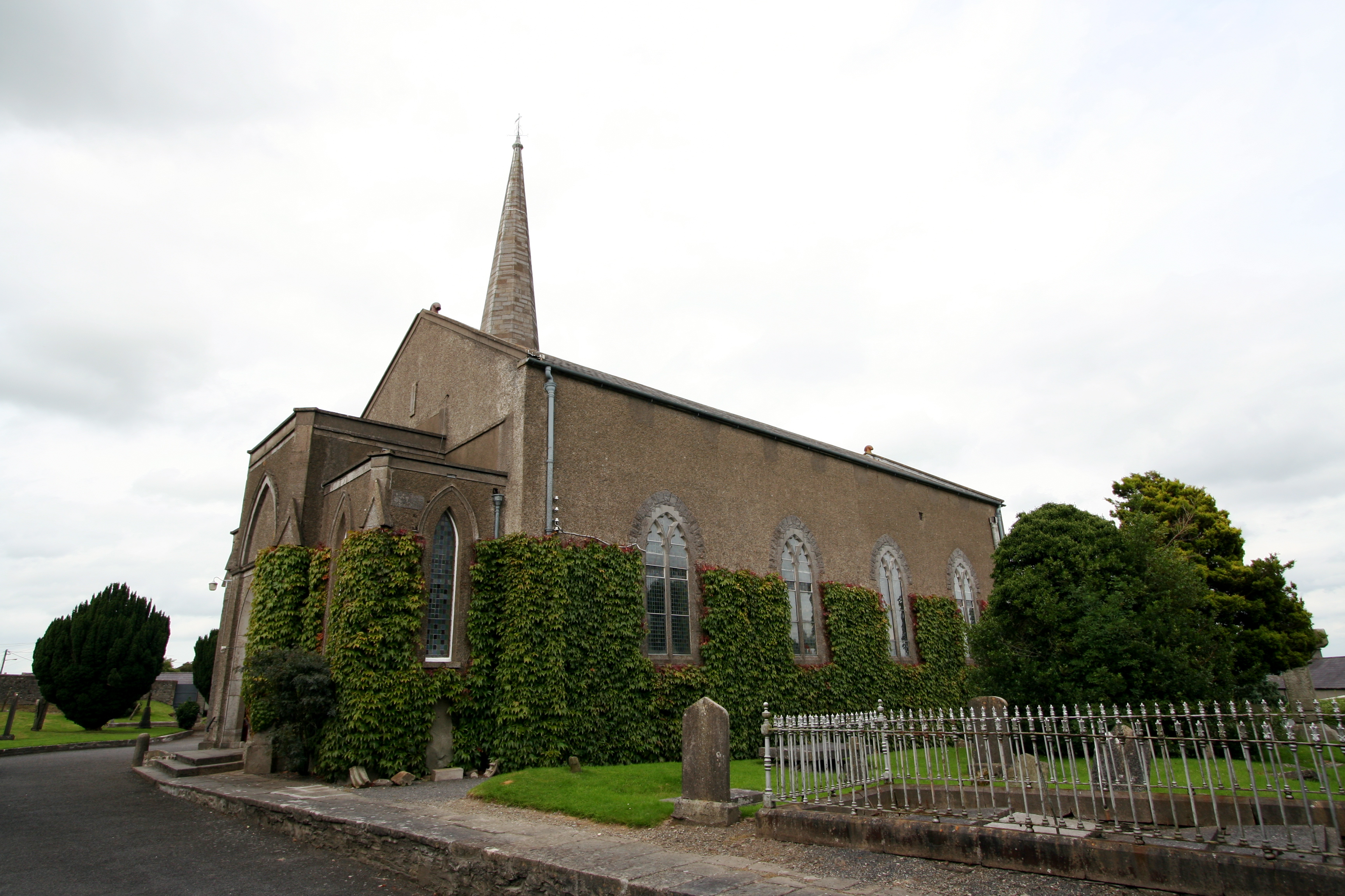 Kellas Abbey, MeathMonasterio de Kells